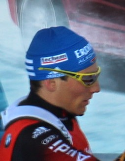 Erik Lesser at Biathlon World Cup 2015 in Nové Město, Czech Republic – sprint men